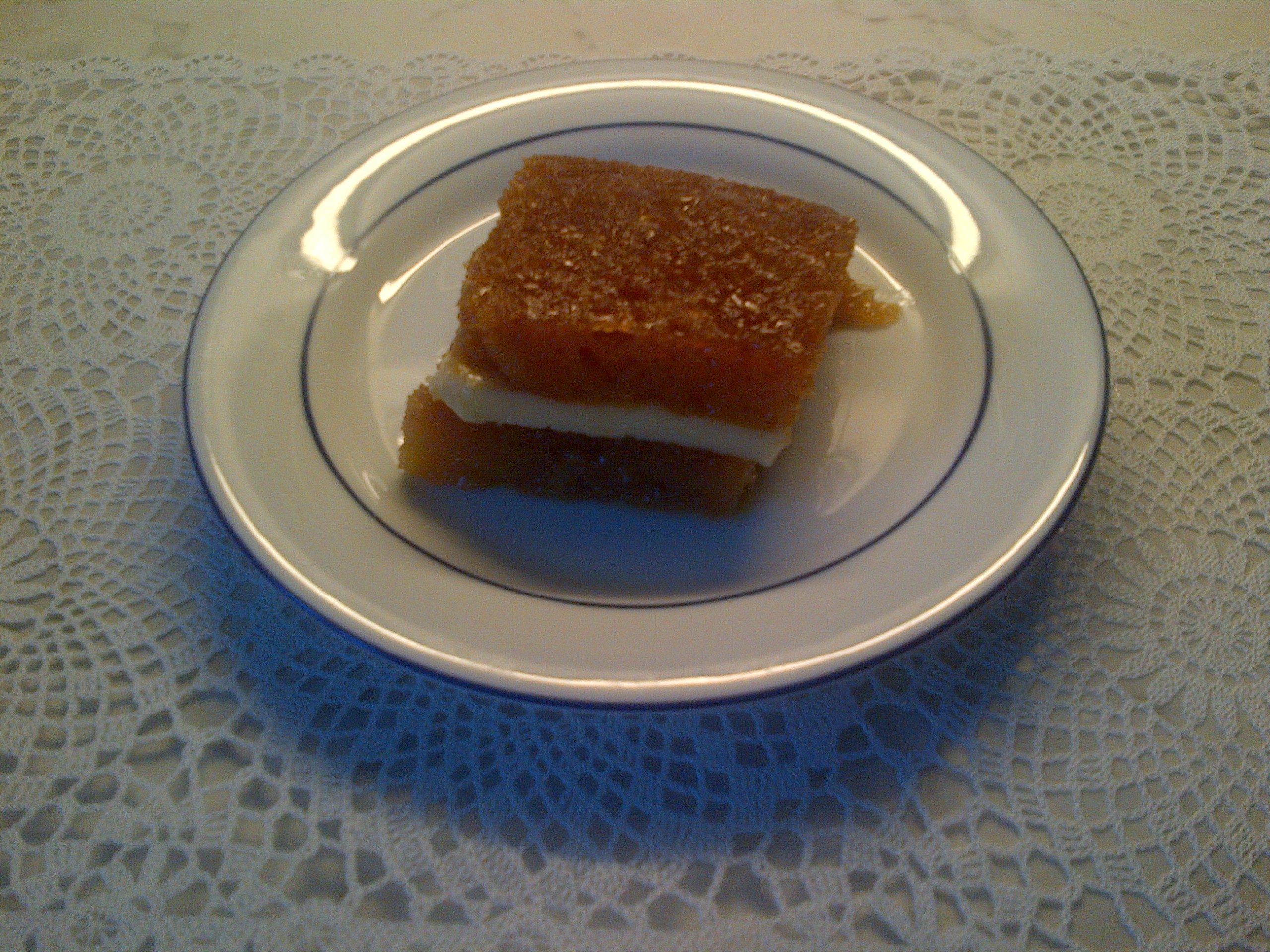 "Ekmek kadayıfı", a dessert from the Turkish cuisine. It is almost always eaten with "kaymak". The kaymak is generally served on top of the dessert, but sometimes also like this, between two chunks of "ekmek kadayıfı".